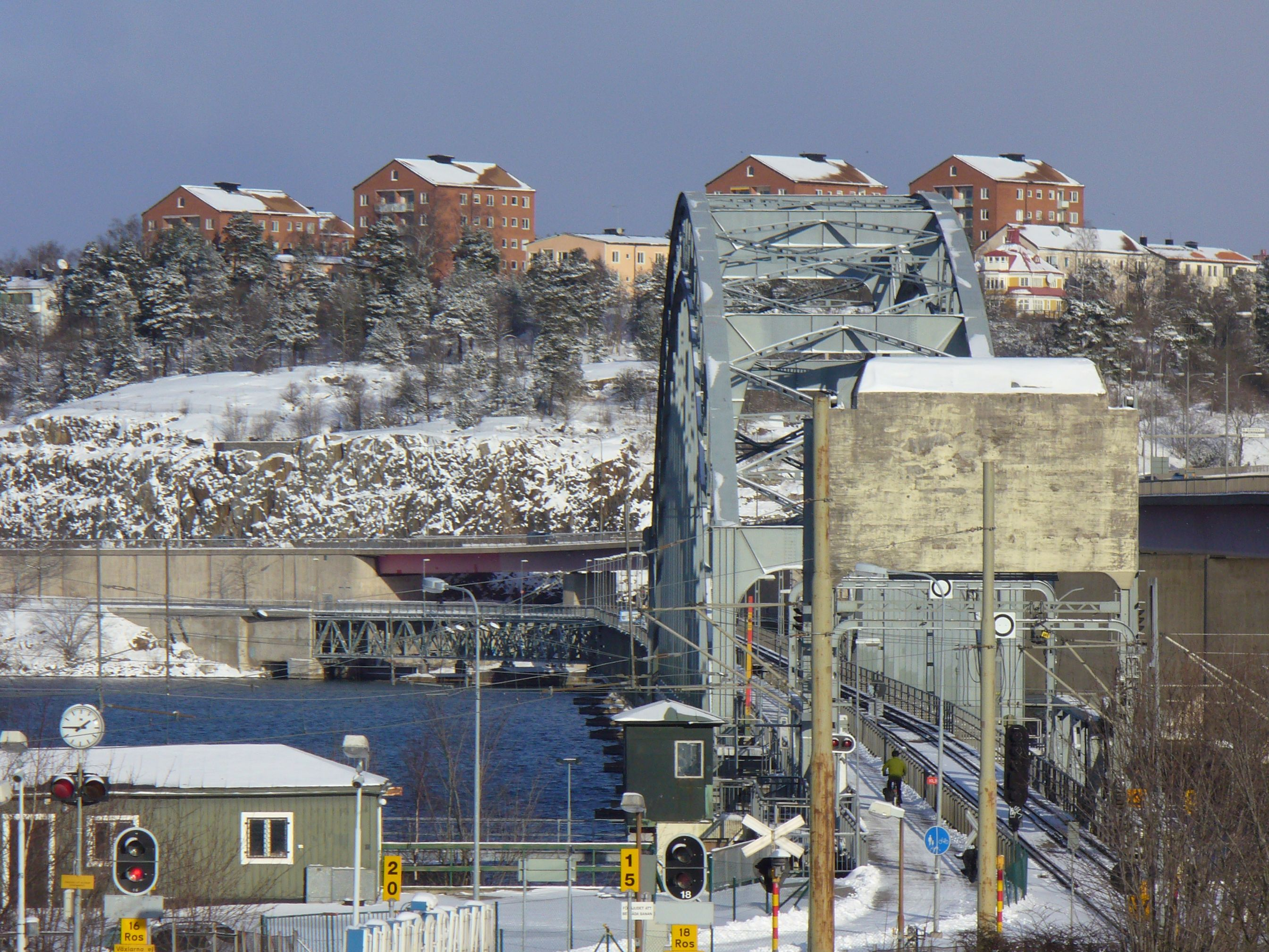 Lidingö Bridge with Lidingö covered by snow, seen from Ropsten, Stockholm